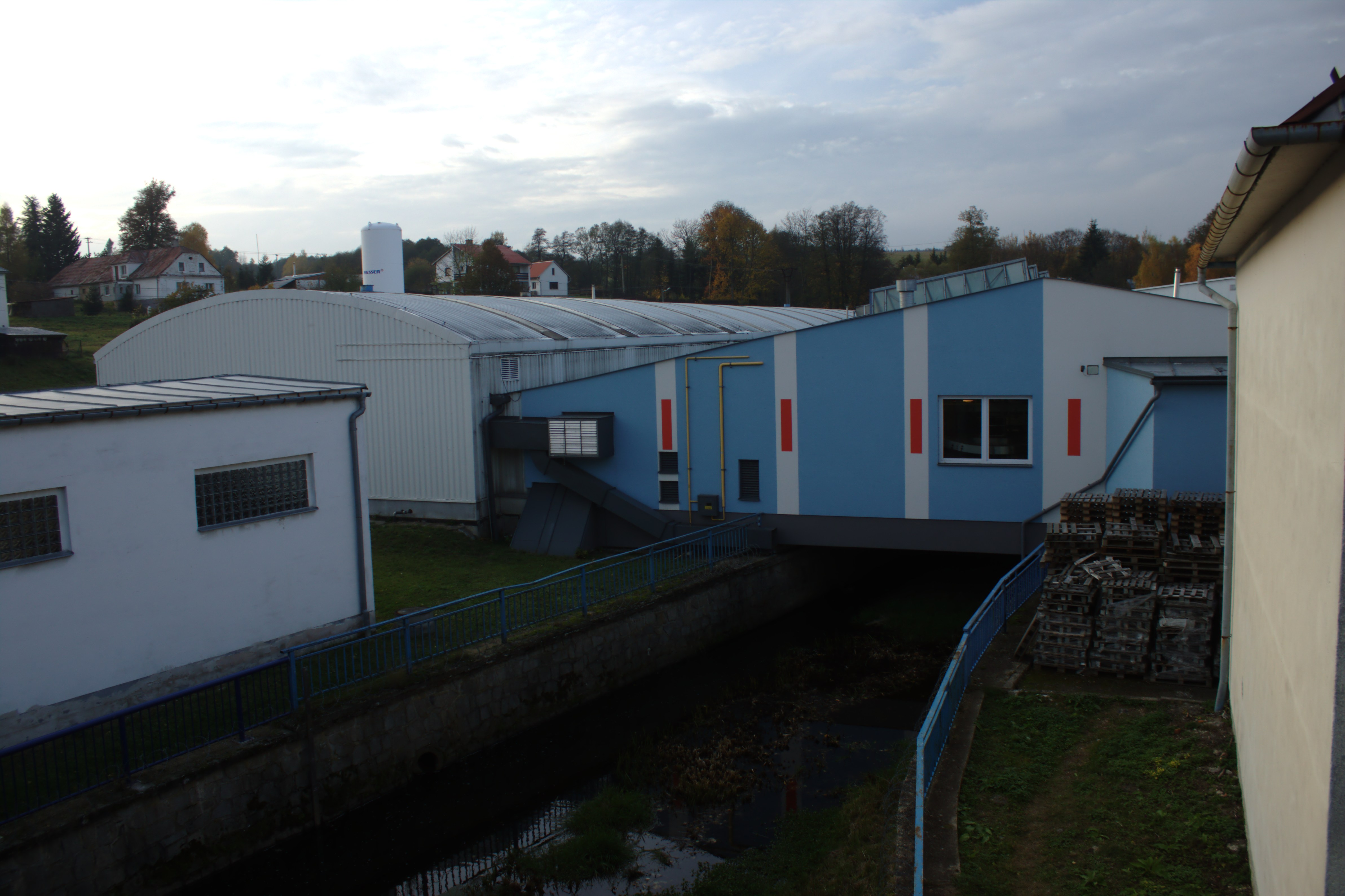 Ondráškovka factory in Ondrášov near Moravský Beroun, Olomouc Region, CZ